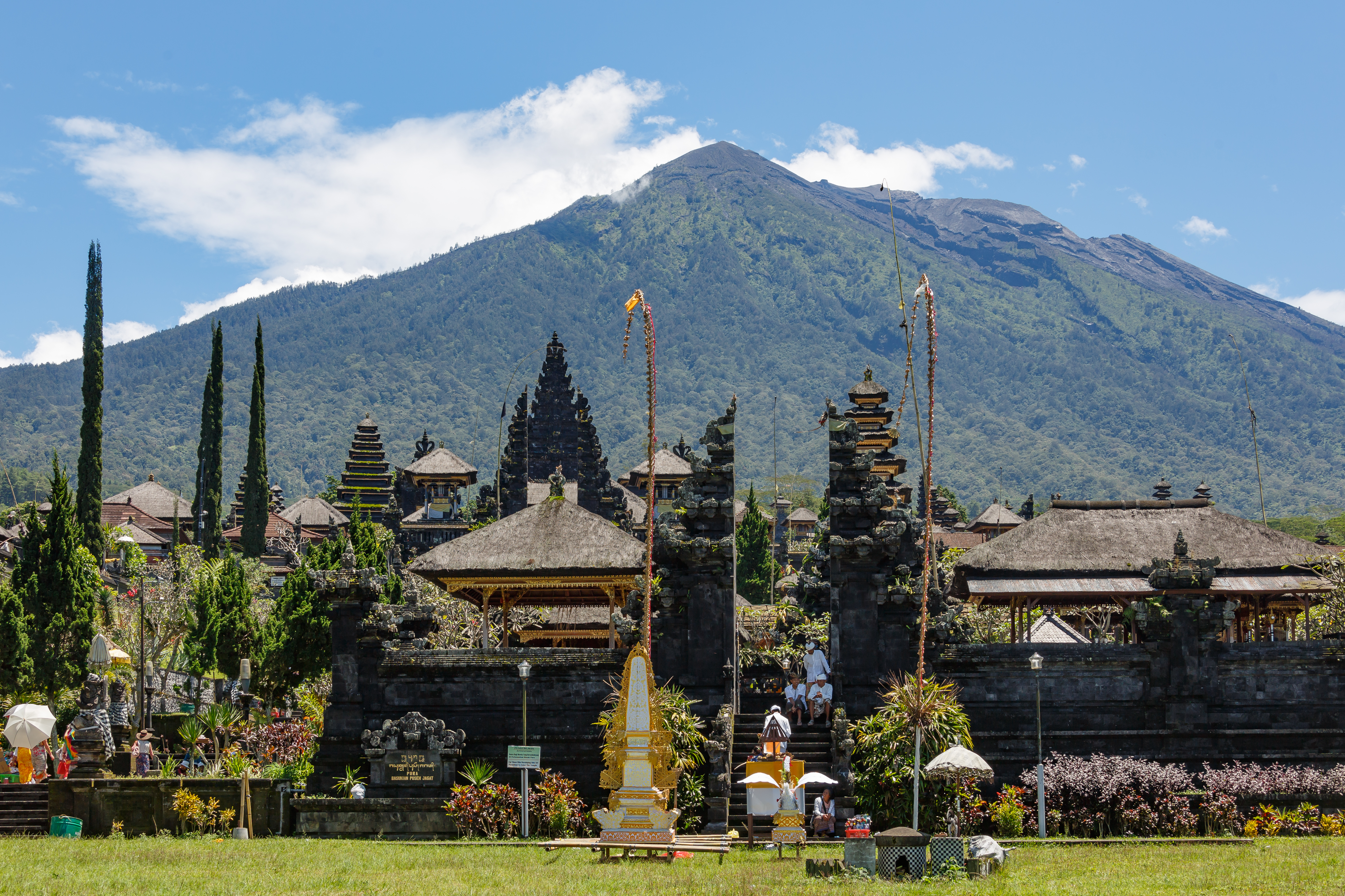 Besakih, Bali, Indonesia: The Mother Temple of Besakih, or Pura Besakih, in the village of Besakih on the slopes of Mount Agung in eastern Bali, Indonesia, is the most important, the largest and holiest temple of Hindu religion in Bali.